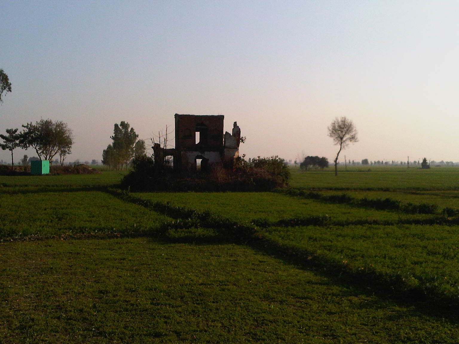 The dilapidated Baradari built by Ranjit Singh at Pul Moran which is almost halfway between Lahore and Amritsar where he used to meet Moran and spend time with her.